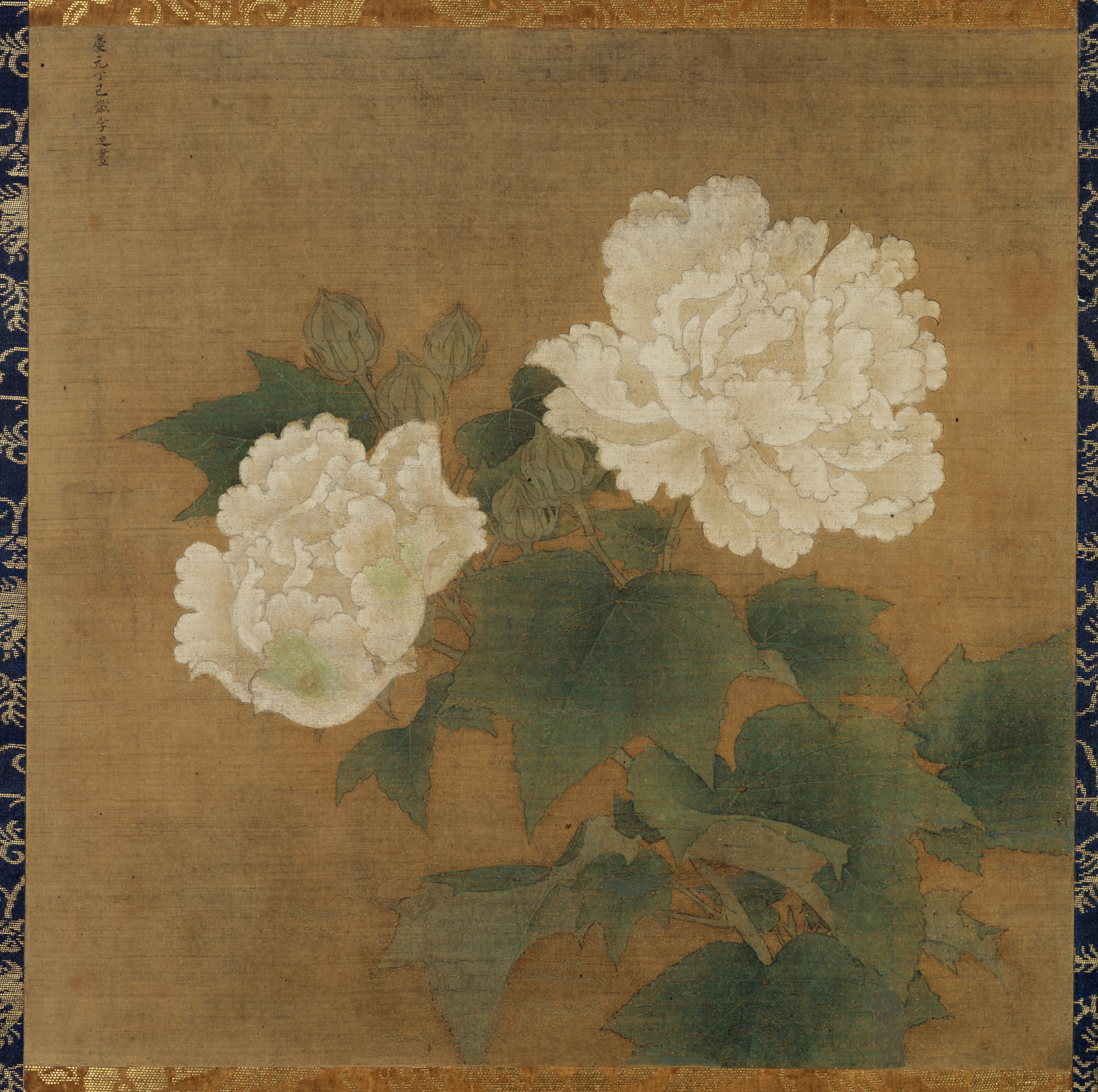 White hibiscuses, part of the set: Red and white hibiscuses (絹本著色紅白芙蓉図, kenpon choshoku kōhaku fuyōzu) by Li Di. Set of two hanging scrolls, 25.2 cm x 25.5 cm each. Color on silk. Located at the Tokyo National Museum, Tokyo.